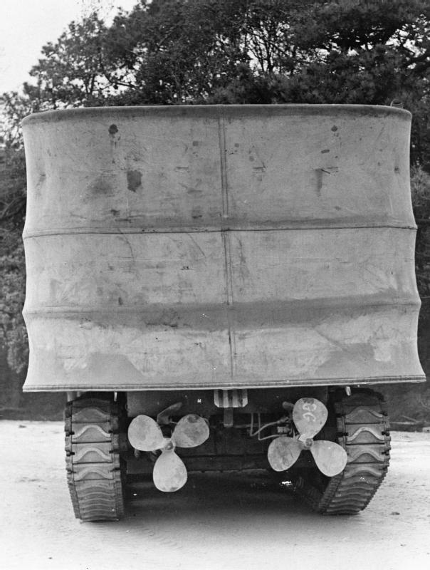 Tanks and Armoured Fighting Vehicles of the British Army 1939-45 Sherman DD (Duplex Drive) with screens raised